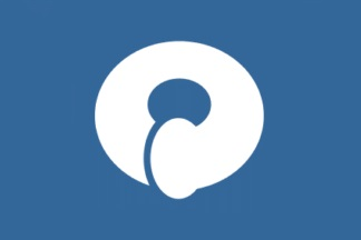 Flag of Manno Kagawa